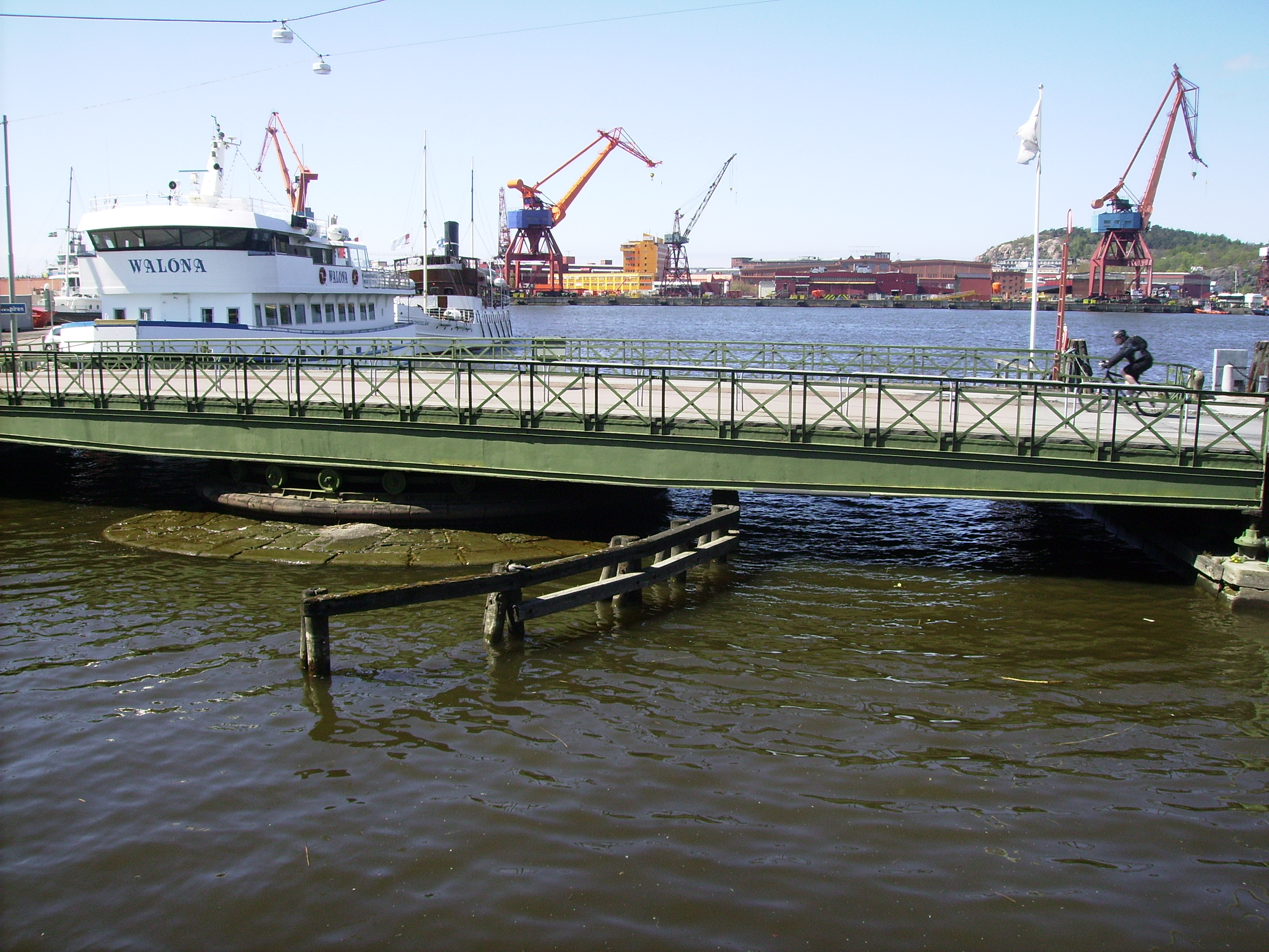 Picture of Stora Bommen in Göteborg